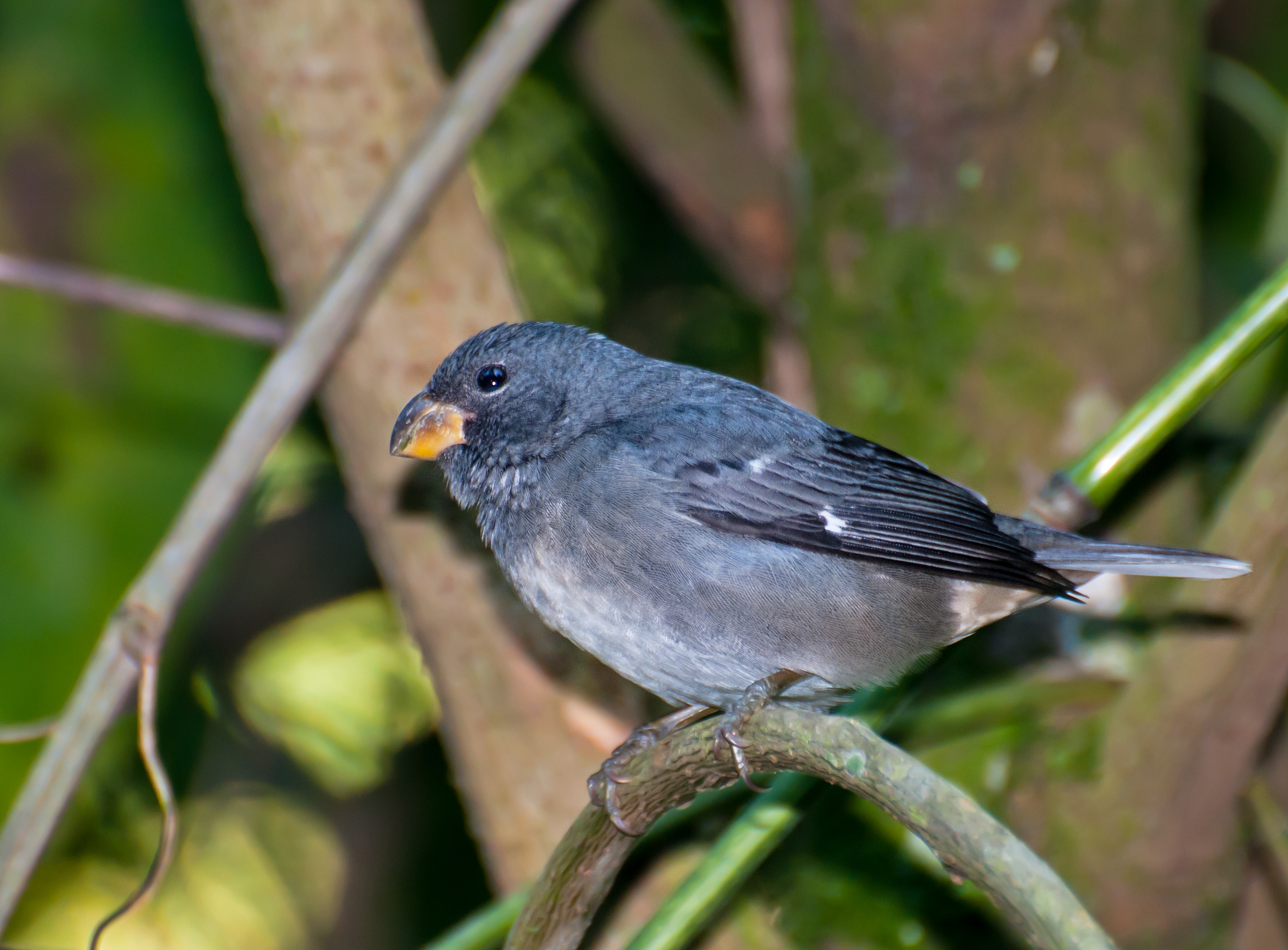 A Temminck's Seedeater in Horto Florestal de São Paulo, São Paulo city, Brazil.